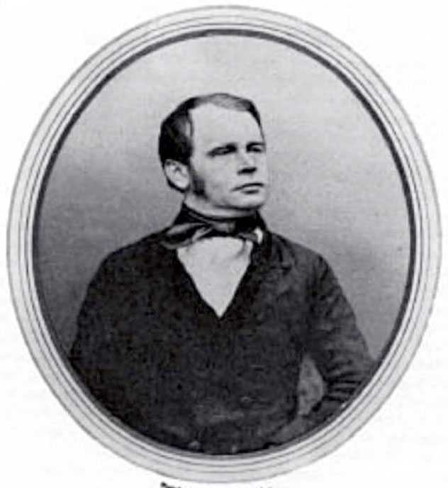 Johann Heinrich Gottlieb Luden (1810-1880) german legal scholar